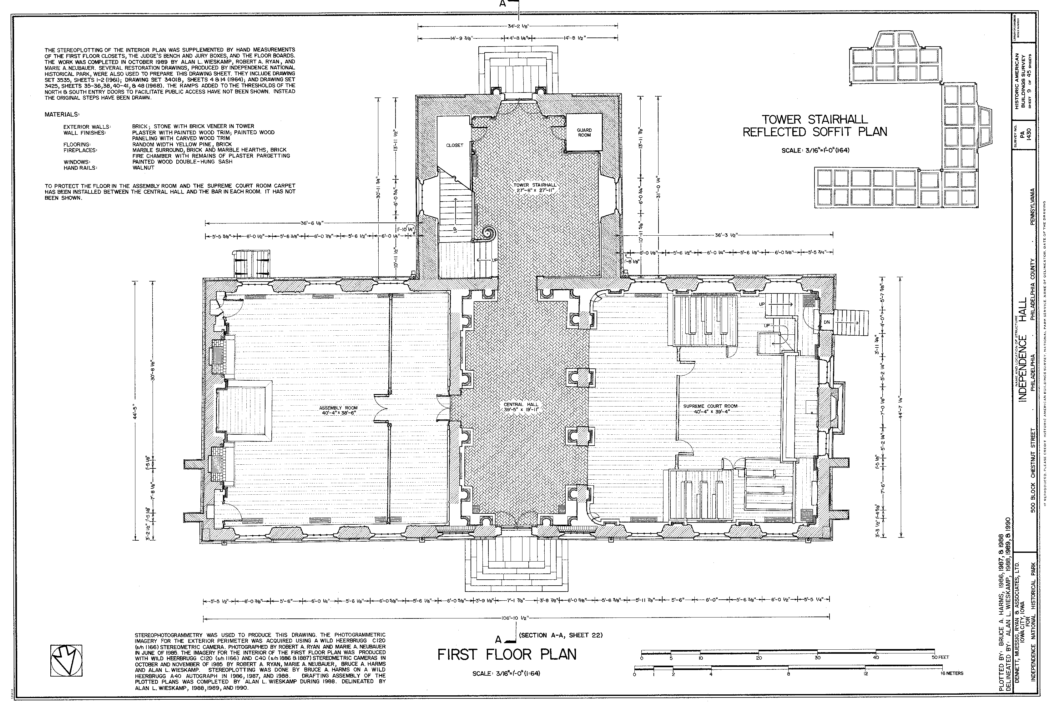 HABS measured drawing of the first floor of Independence Hall